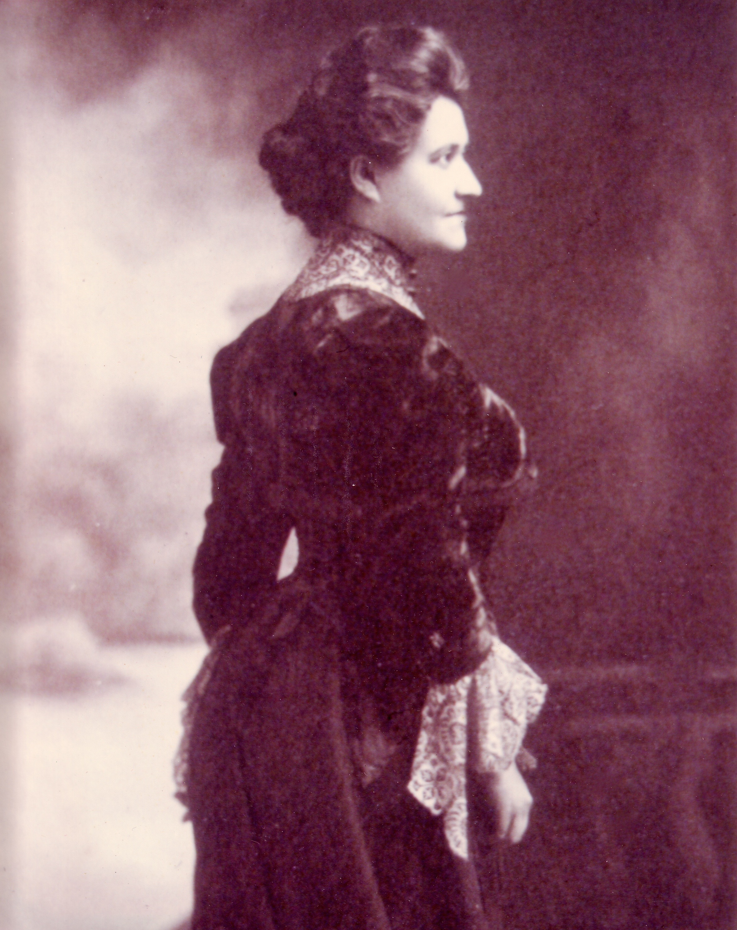 Photo from the Queen's Archives. Unknown date.